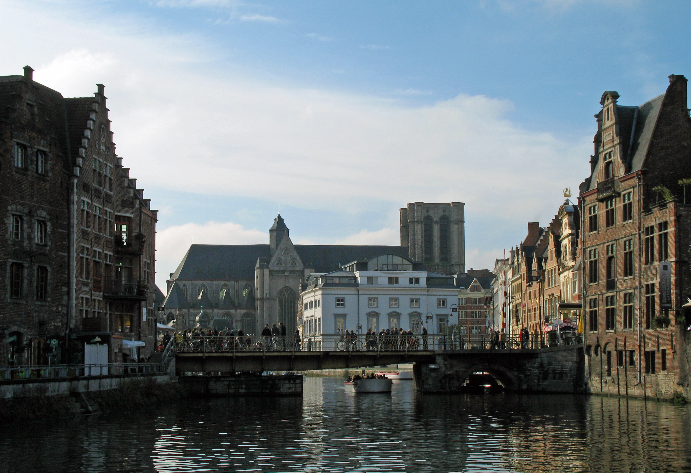 Ghent (Belgium): the Leie river and St Michael's church